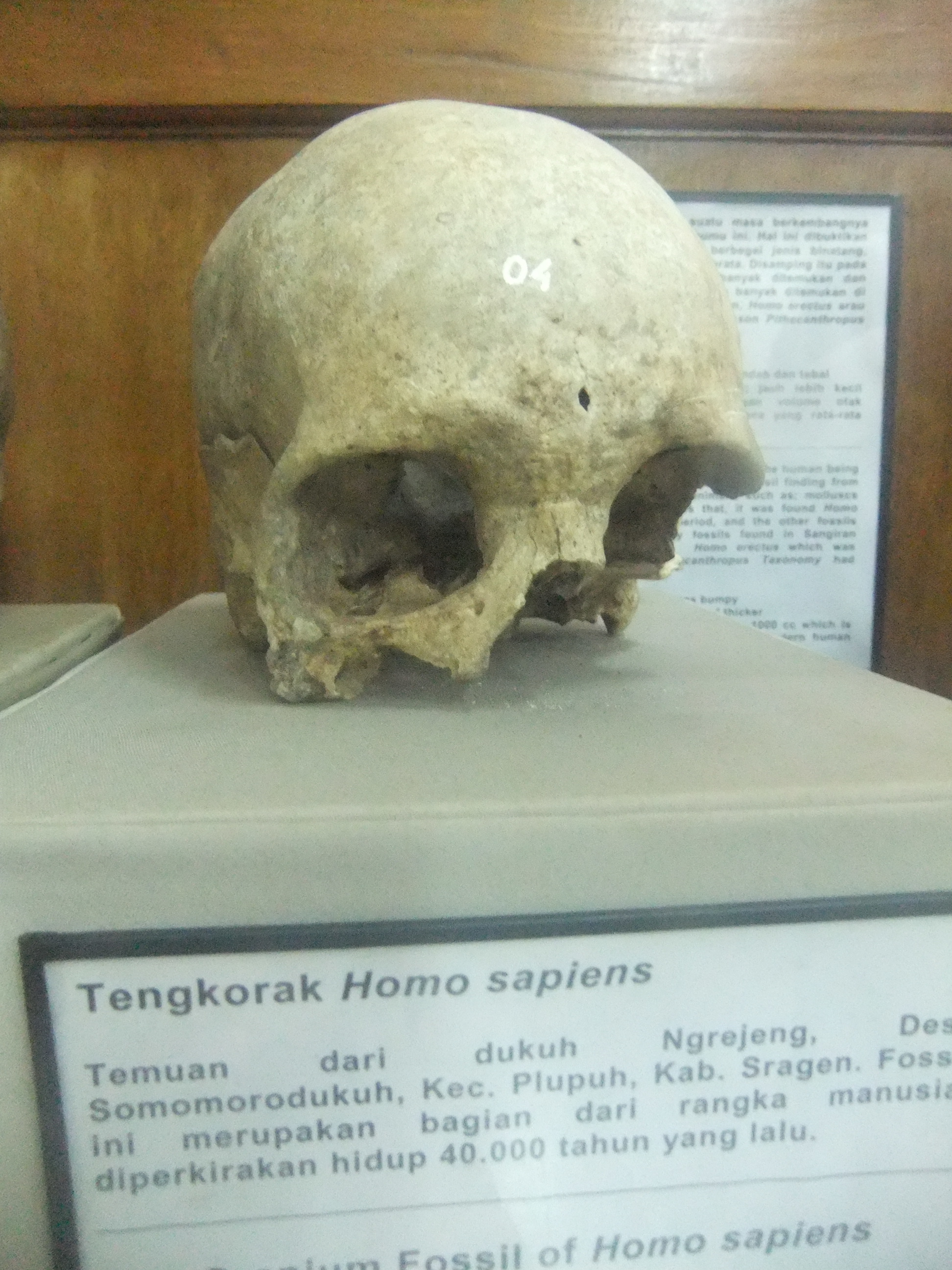 Homo sapiens, Ngrejeng, Sangiran Museum, Sragen, Indonesia